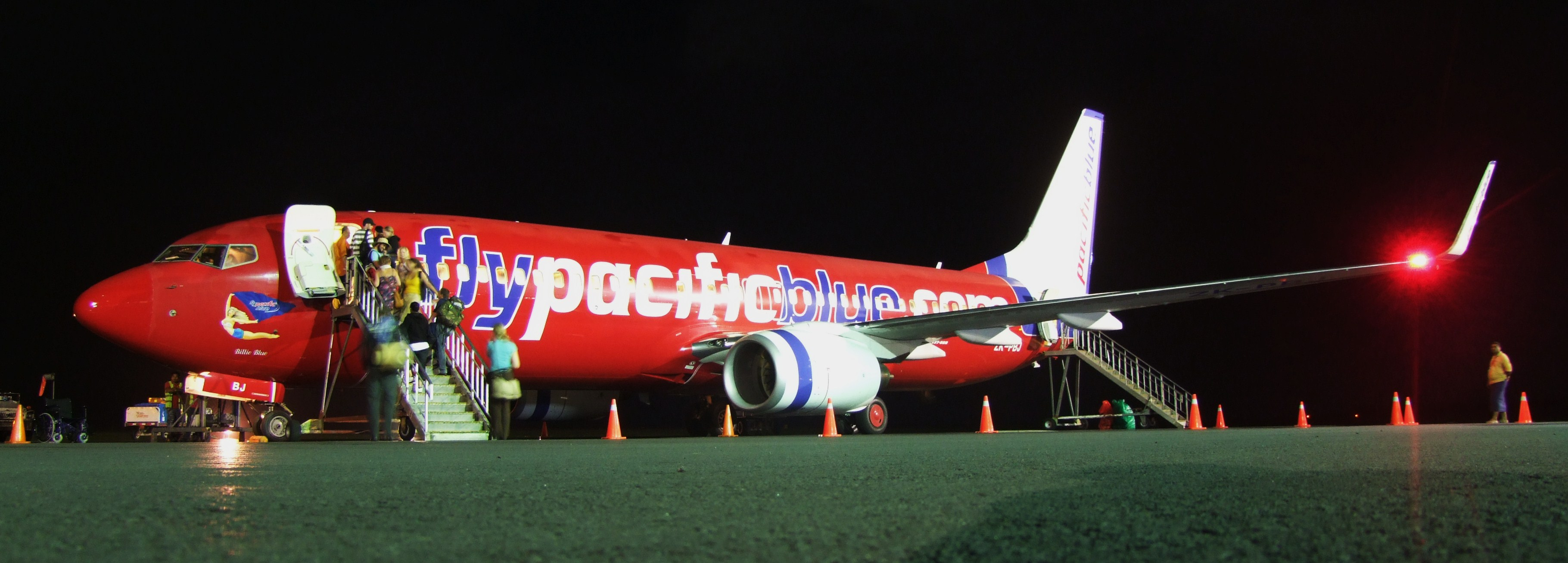 An airplane of Pacifc Blue flying for Polynesian Blue. The photo was taken at the Faleolo International Airport